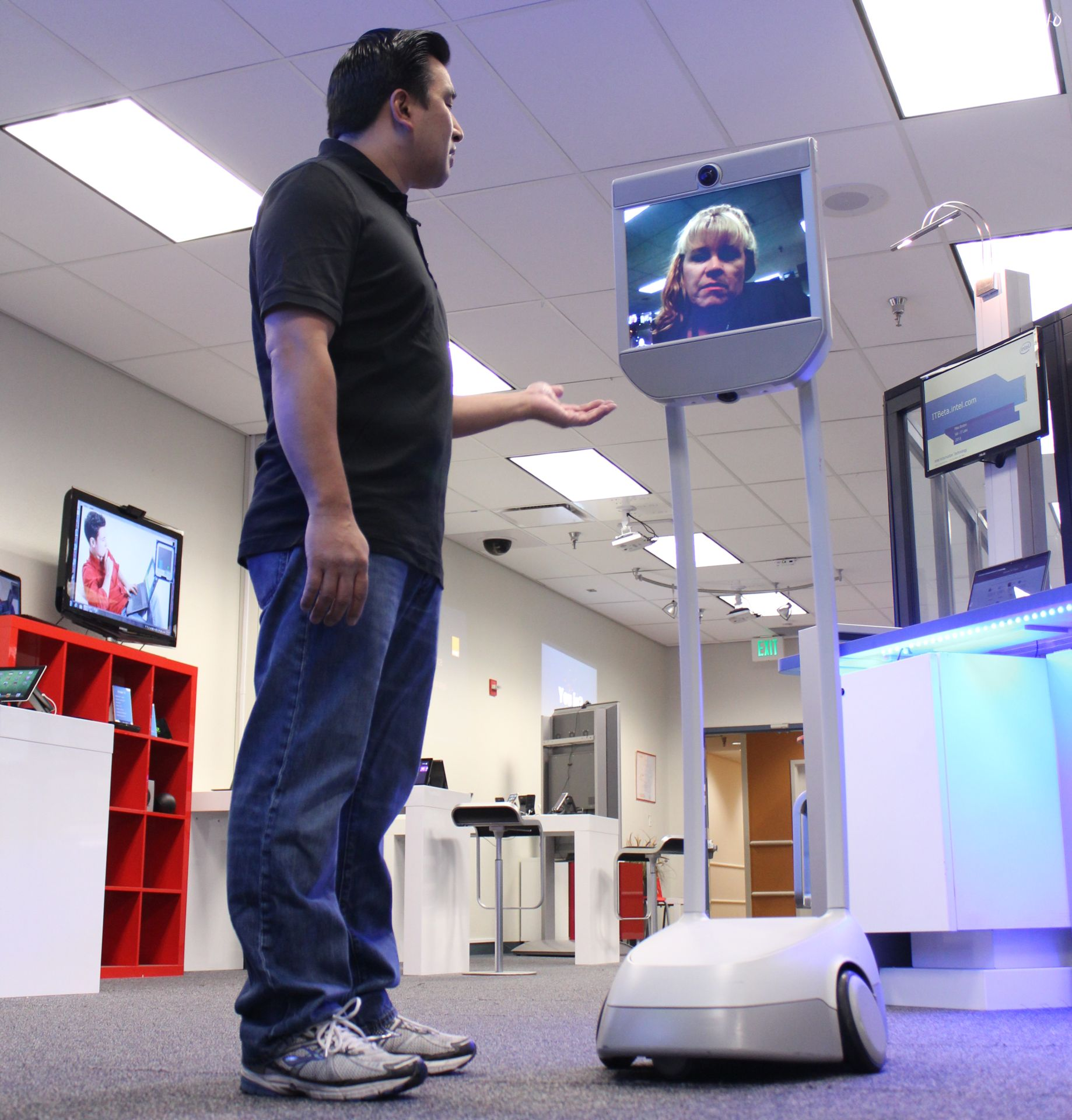 "You can do this anywhere your laptop is, so it saves on travel," said John Nguyen, an Intel IT Labs researcher working on a remote telepresence robot pilot project that uses Suitable Technologies' Beam robot. See more: Robots Roam Inside Intel Telepresence robots allow cost-effective collaboration for a global workforce. Robotic automation has long been used in Intel factories, but actual 5-foot tall robots are now roaming the halls of the company's offices, popping into cubicles for quick chats and rolling into meetings and collaboration spaces. When a telepresence robot wheels into a meeting, the screen displays streaming video from the user's webcam. The robot's video camera, microphone and speakers send a live stream from the room back to the person in another location. The wheeled robots can be driven remotely from a laptop, freeing them to move around the room or extend face-to-face collaboration to other locations.